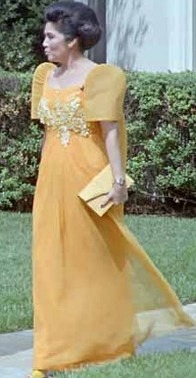 Imelda Marcos during a state visit outside the Oval Office.